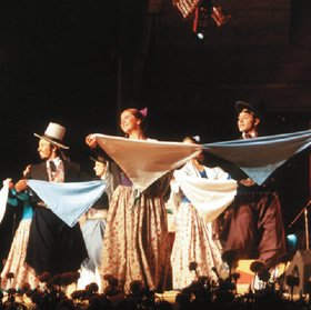 Argentinean folk lucroooo l, Cosquin, Cordoba. Argentina